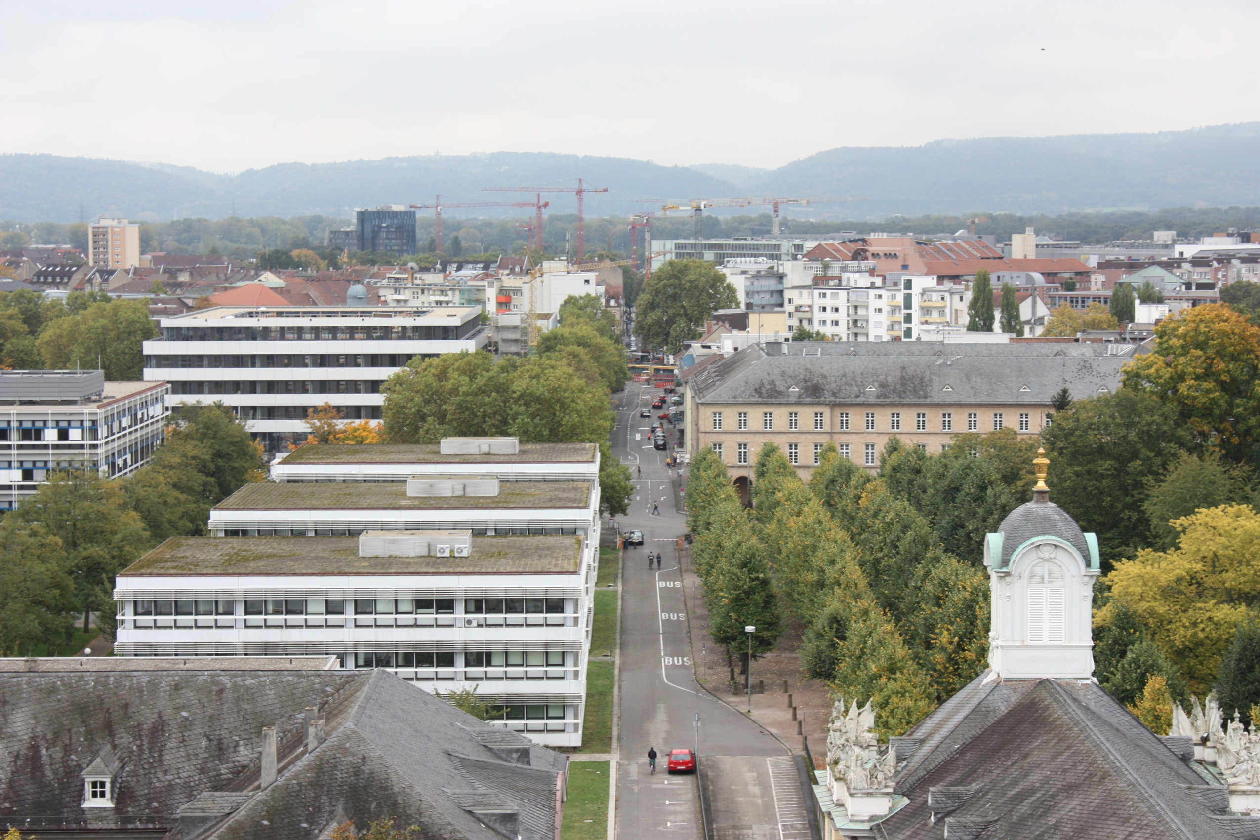 Karlsruhe, view from the tower of the château to the Waldhornstraße